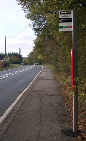 The Thirst and Last Bus Stop on London Road The B245 London Road leads from Hildenborough towards the Morley Roundabout with the A21 and A225. The name of the stop is derived from a former pub which has now been knocked down.